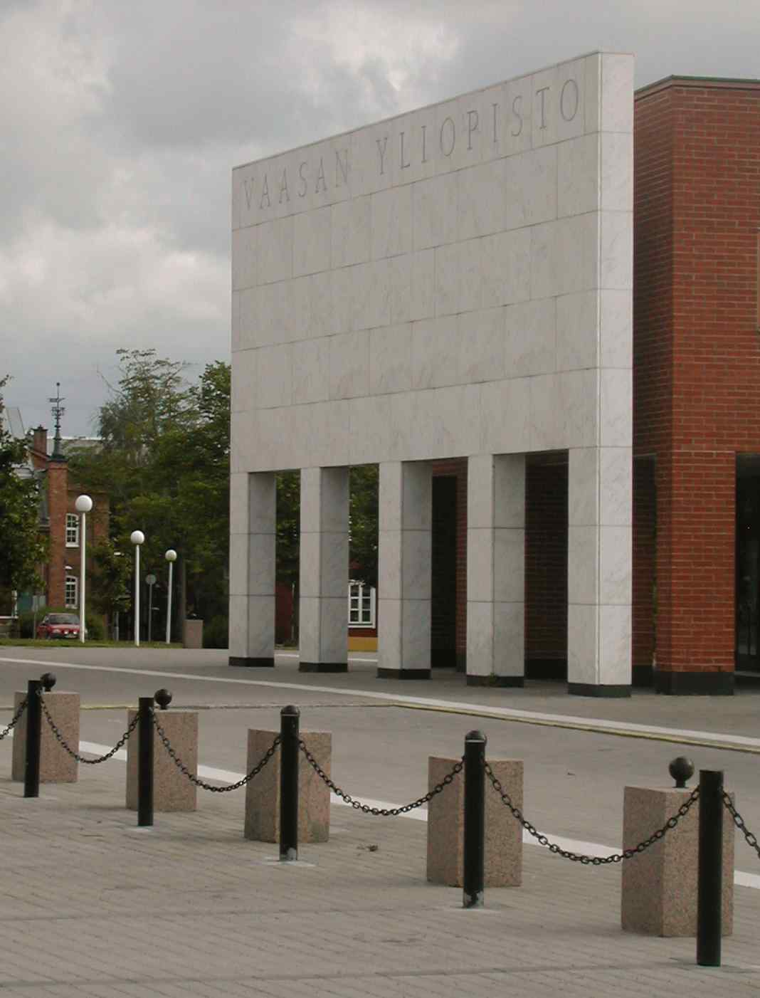 The marble arch in front of the University of Vaasa has the text 'Vaasan Yliopisto', which is the universities name in Finnish. Photo taken by Christian Bertell in July 2006. Ostrobothnian 16:23, 16 July 2006 (UTC)